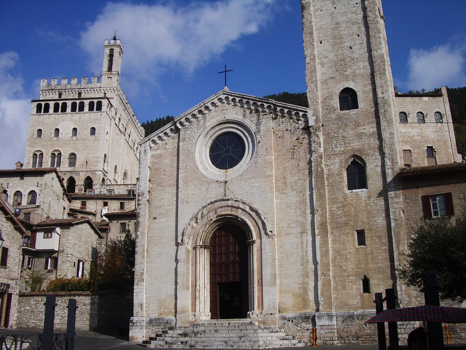 Chiesa San Giovanni (Gubbio)